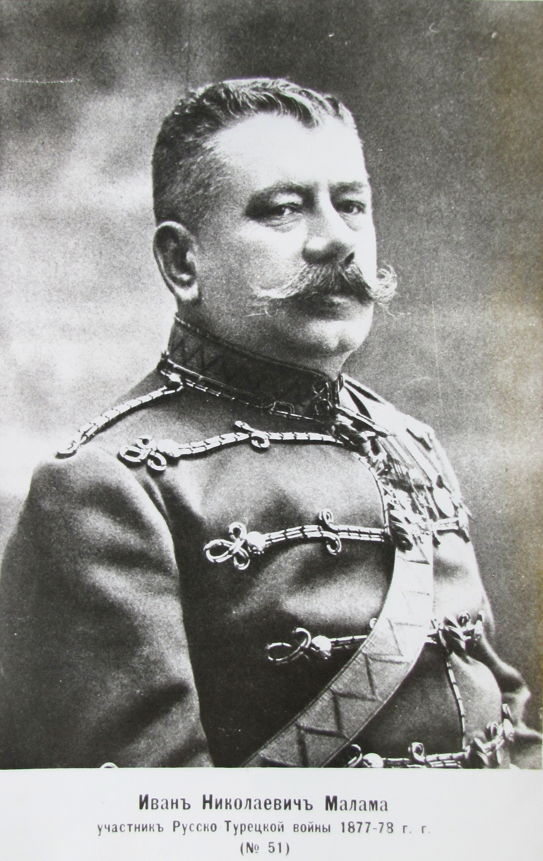 Ivan Nikolaevich Malama